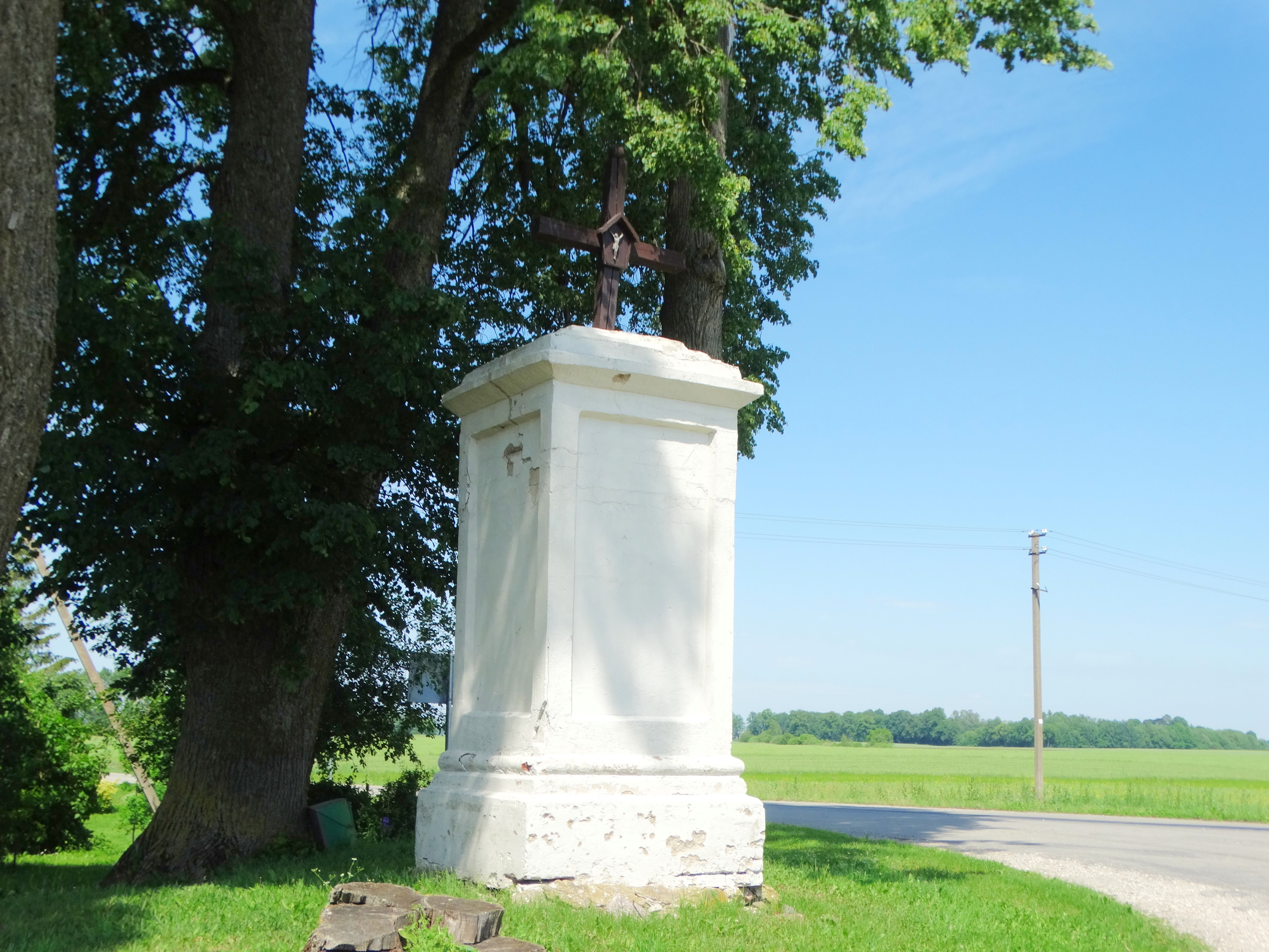 Paobelys, Ukmergė district, Lithuania